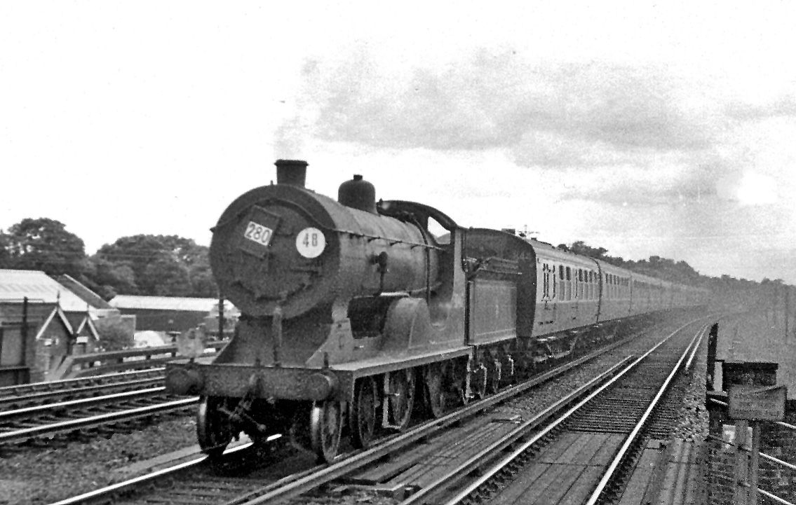 Summer Saturday Lymington Pier to Waterloo express passsing West Weybridge. View westwards, towards Woking etc.: ex-LSW Waterloo - West main line. By the 1950's these larger D15 class Drummond 4-4-0's usually only appeared in London on Summer Saturdays, working the relatively easy job up from Lymington Pier, which catered for the holiday-makers from Yarmouth, Isle of Wight. This is No. 30467 (built 3/17, withdrawn 9/55). The station has been 'Byfleet & New Haw' since 1962.